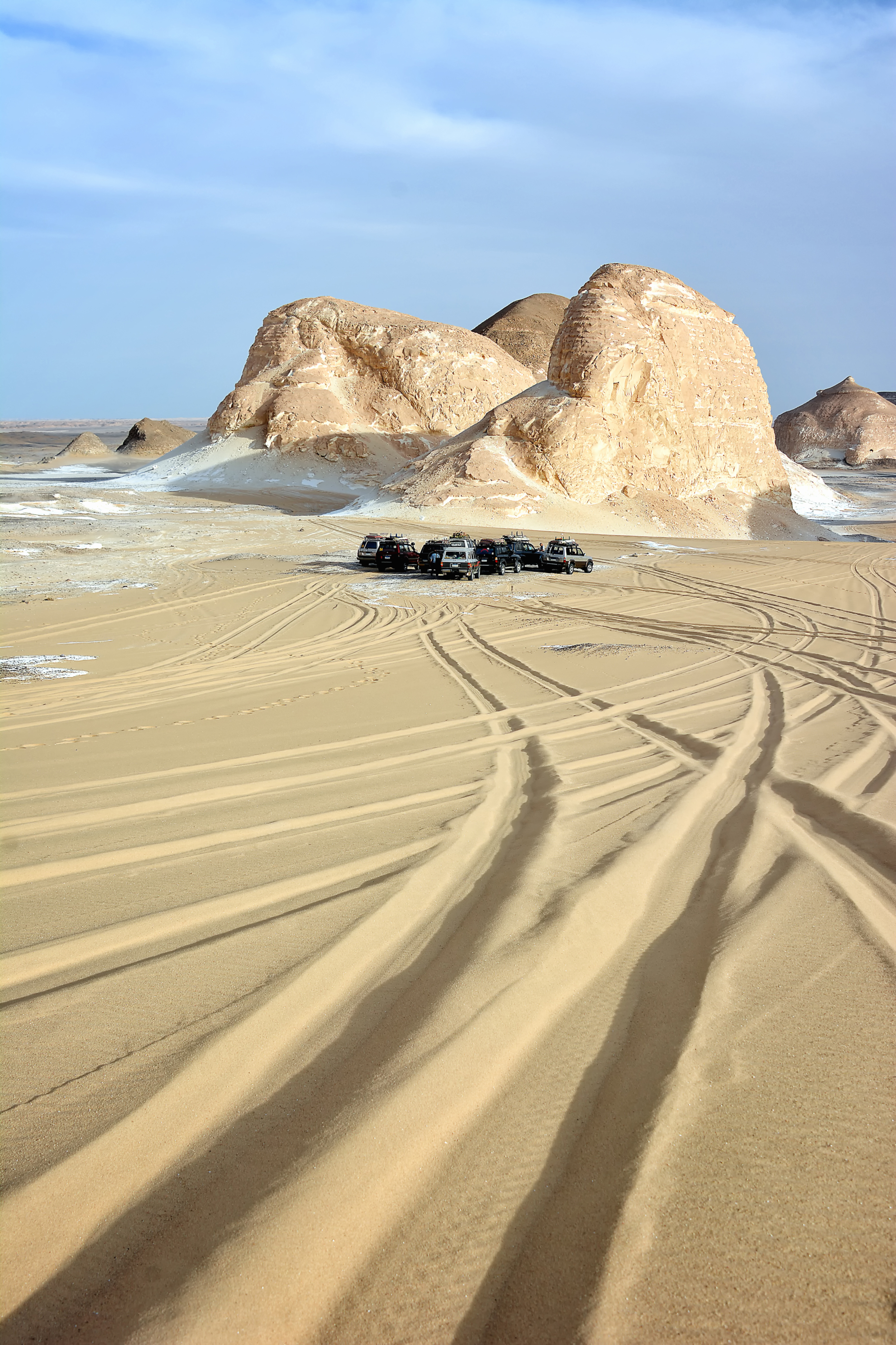 Safari in white desert - Egypt This is an image with the theme "Africa on the Move or Transport" from: Egypt